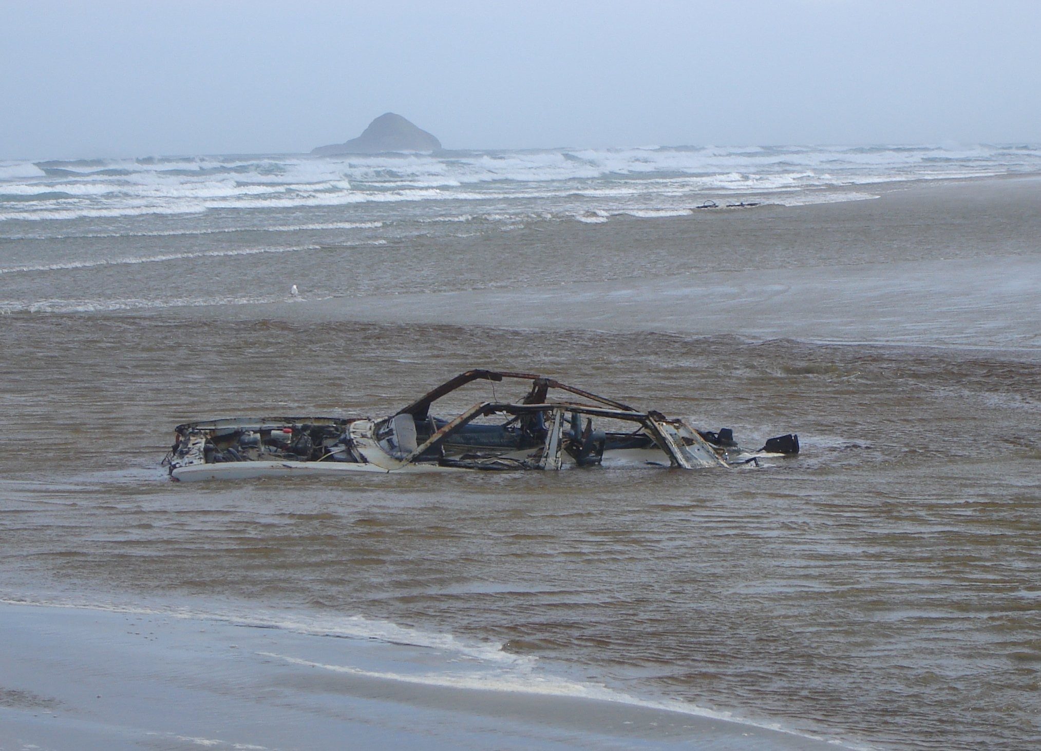 Car sunk in sand in the middle of Waikanae Stream coming out on the 90 mile beach. Matapia Island seen in the background.